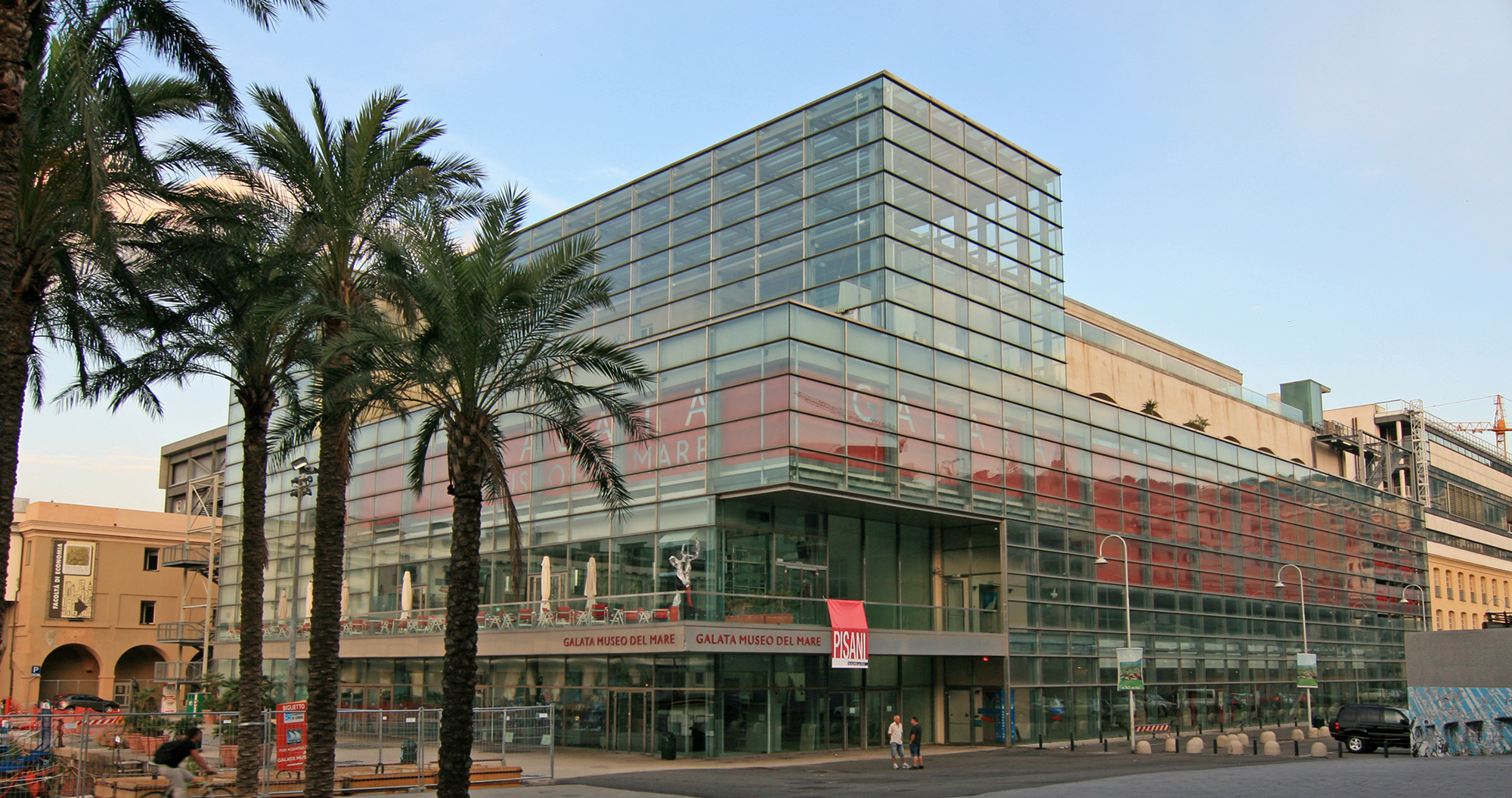 The Galata Museo del Mare, Genova, Italy.